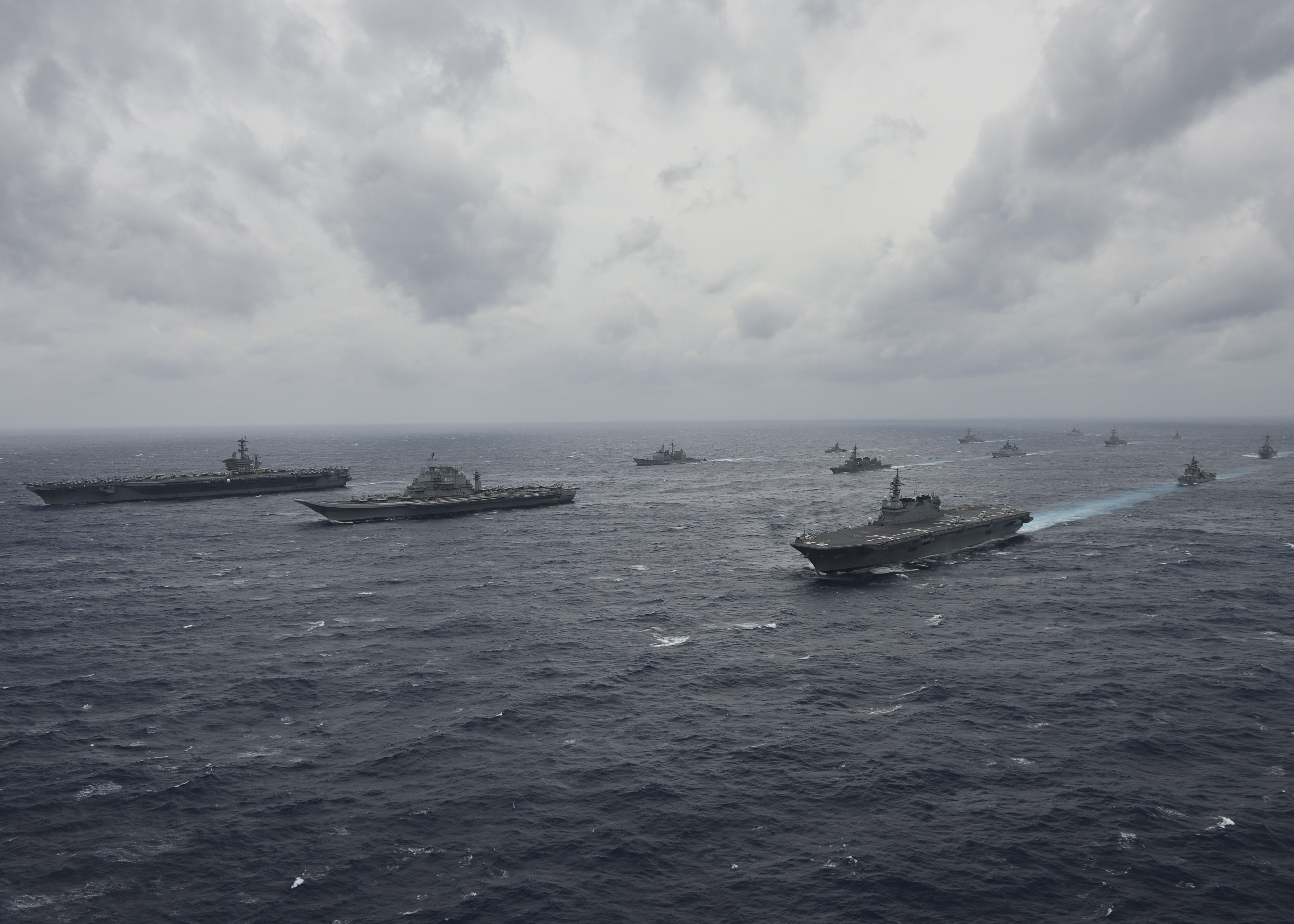 170717-N-JH929-717 BAY OF BENGAL (July 17, 2017) Ships from the Indian navy, Japan Maritime Self-Defense Force (JMSDF) and the U.S. Navy sail in formation in the Bay of Bengal during exercise Malabar 2017. Leading the formation are U.S Navy aircraft carrier USS Nimitz (left), Indian Navy aircraft carrier INS Vikramaditya (middle) and a Japan Maritime Self-Defense Force (JMSDF) ship (right). Malabar 2017 is the latest in a continuing series of exercises between the Indian navy, JMSDF and U.S. Navy that has grown in scope and complexity over the years to address the variety of shared threats to maritime security in the Indo-Asia-Pacific region. (U.S. Navy photo by Mass Communication Specialist 3rd Class Cole Schroeder/Released)